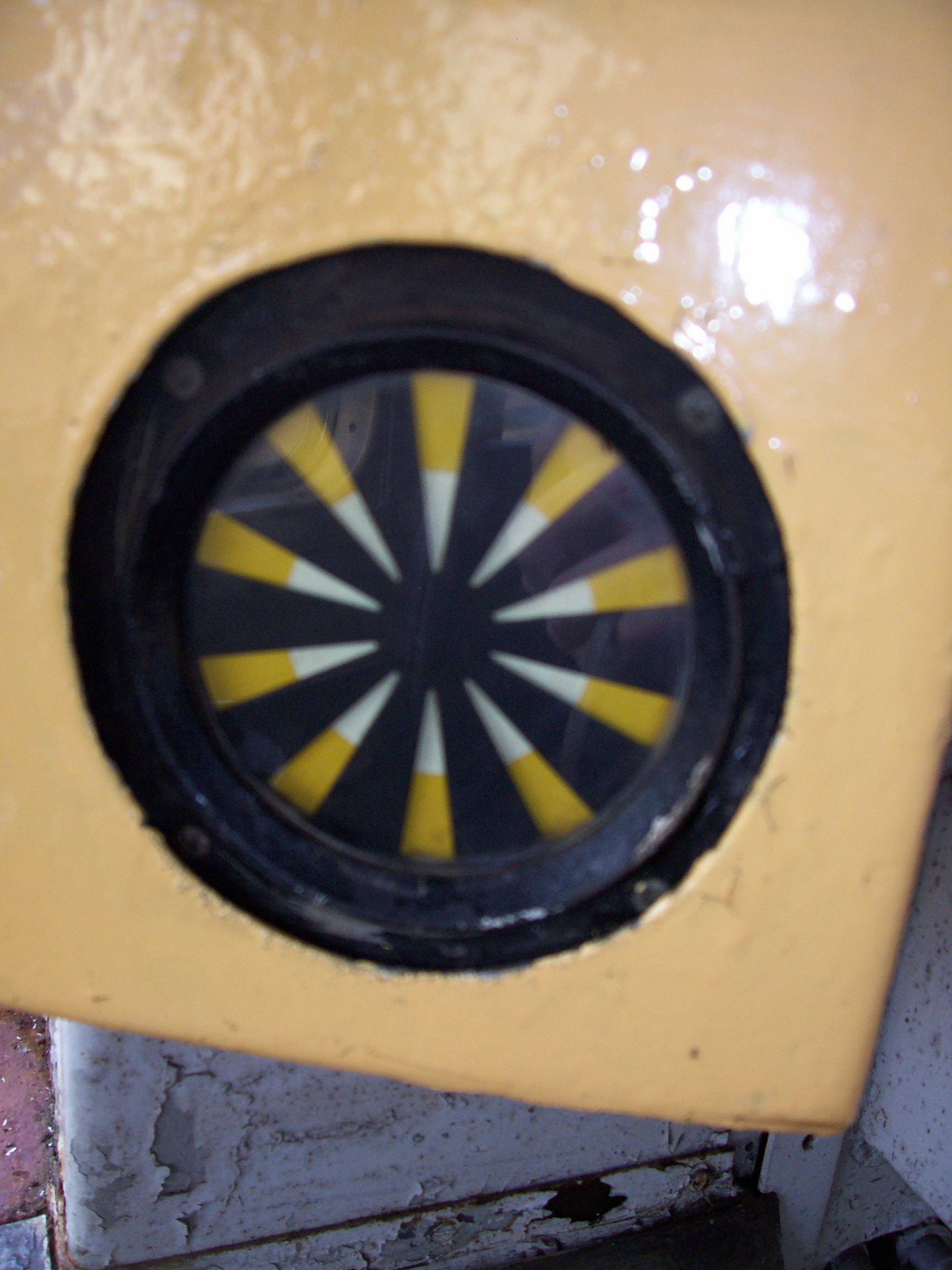 D5401's AWS box